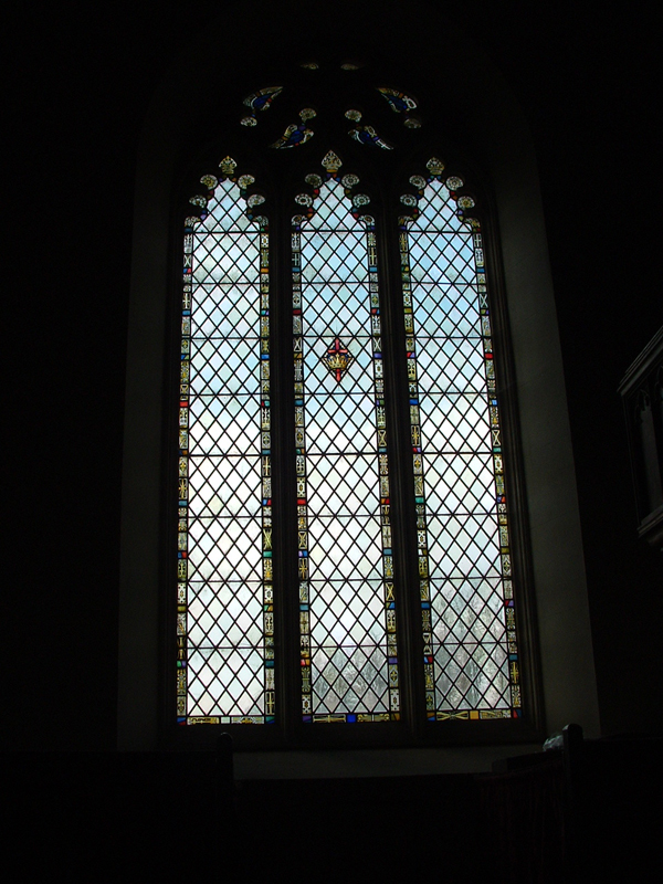 Window in St Mary Magdalene parish church, Sherborne, Gloucestershire